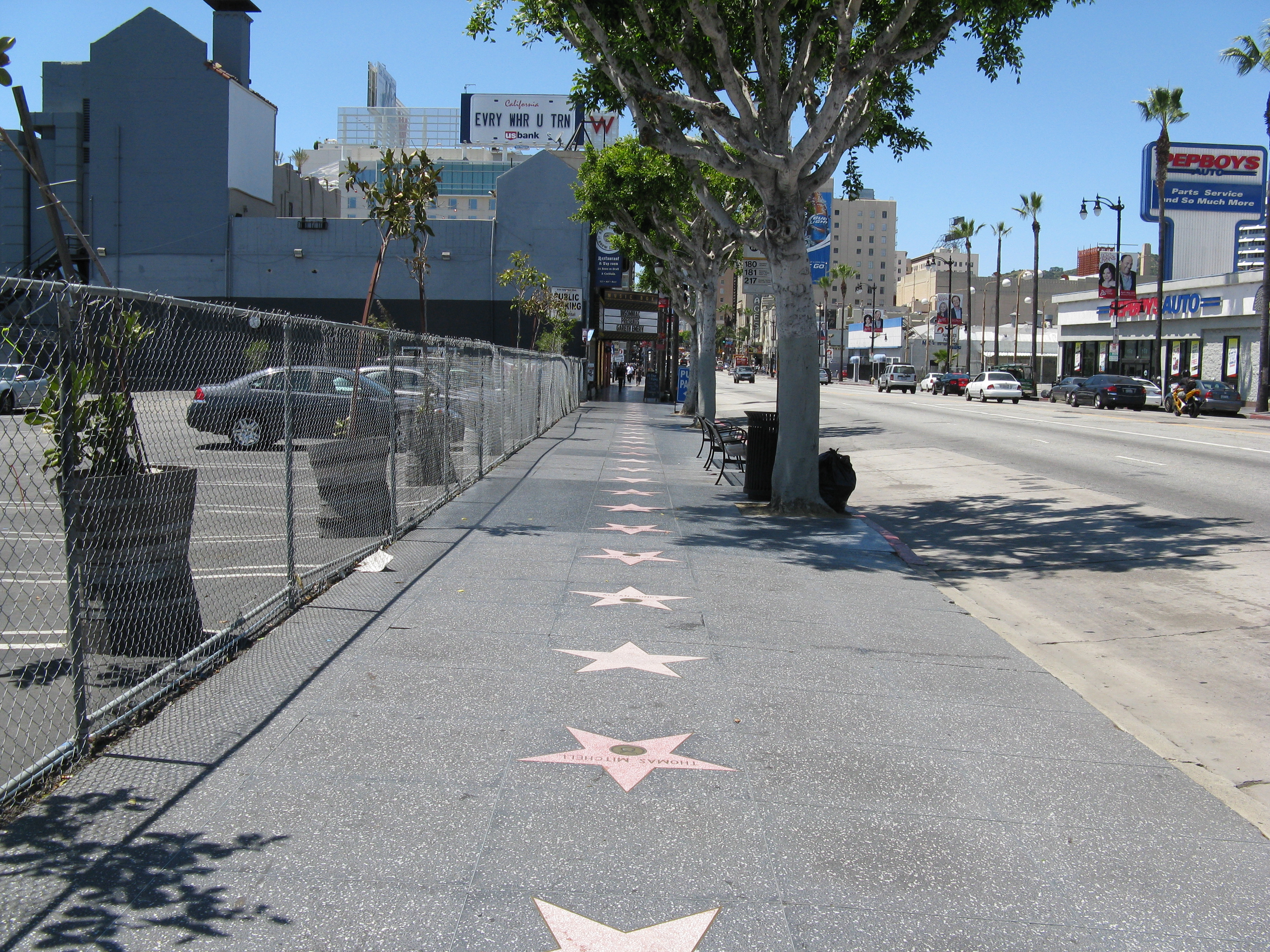 Walk of fame, Hollywood